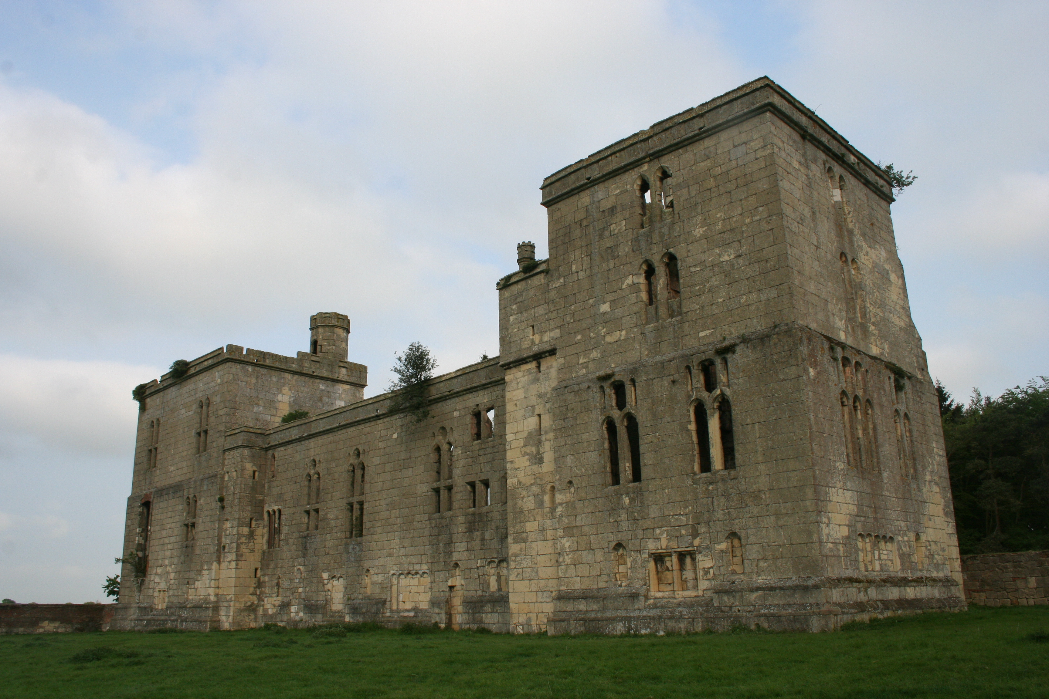 Wressle Castle, Wressle, East Riding of Yorkshire, England.Taken by me on 29 April 2011